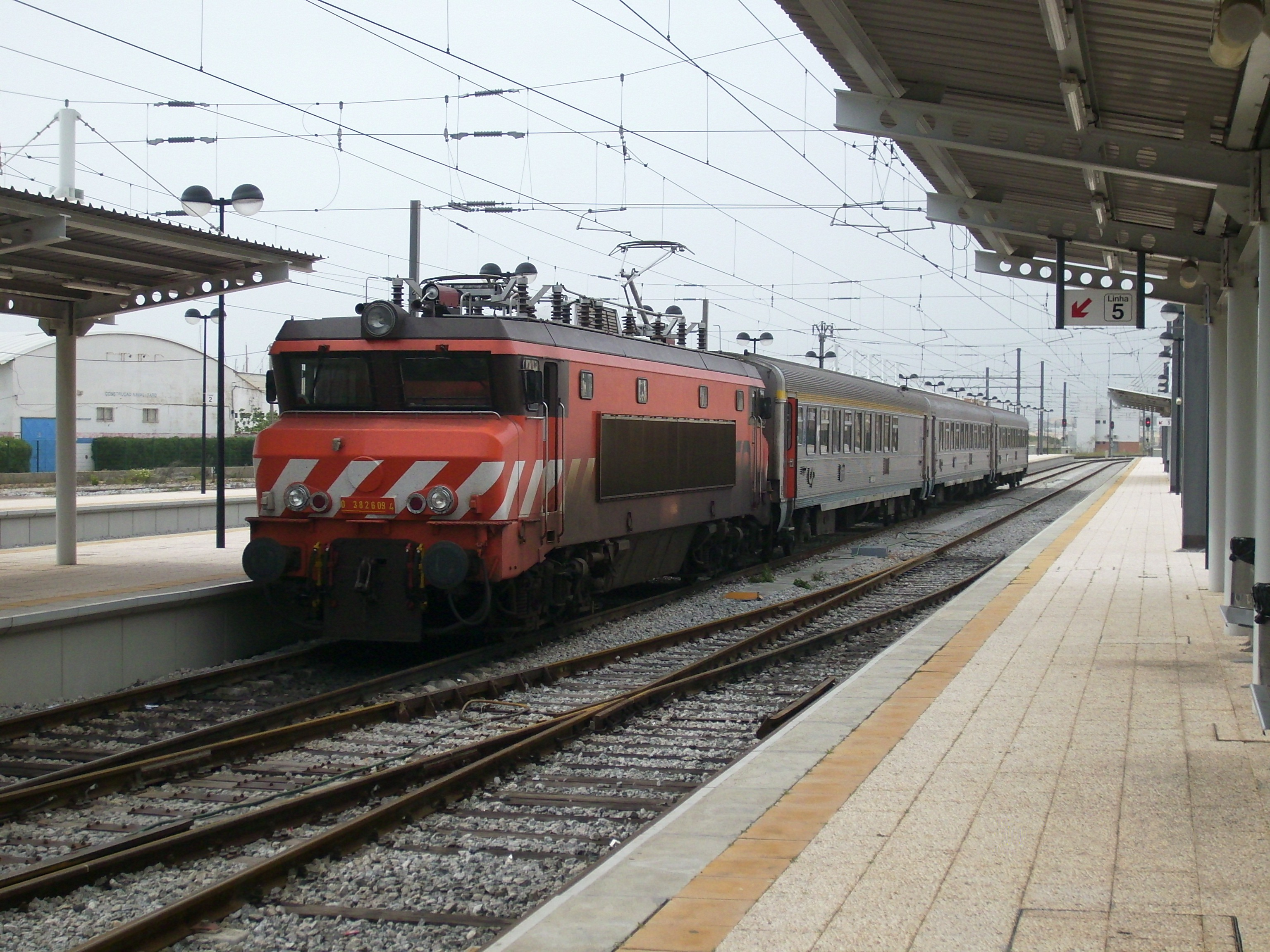 Intercity in Faro